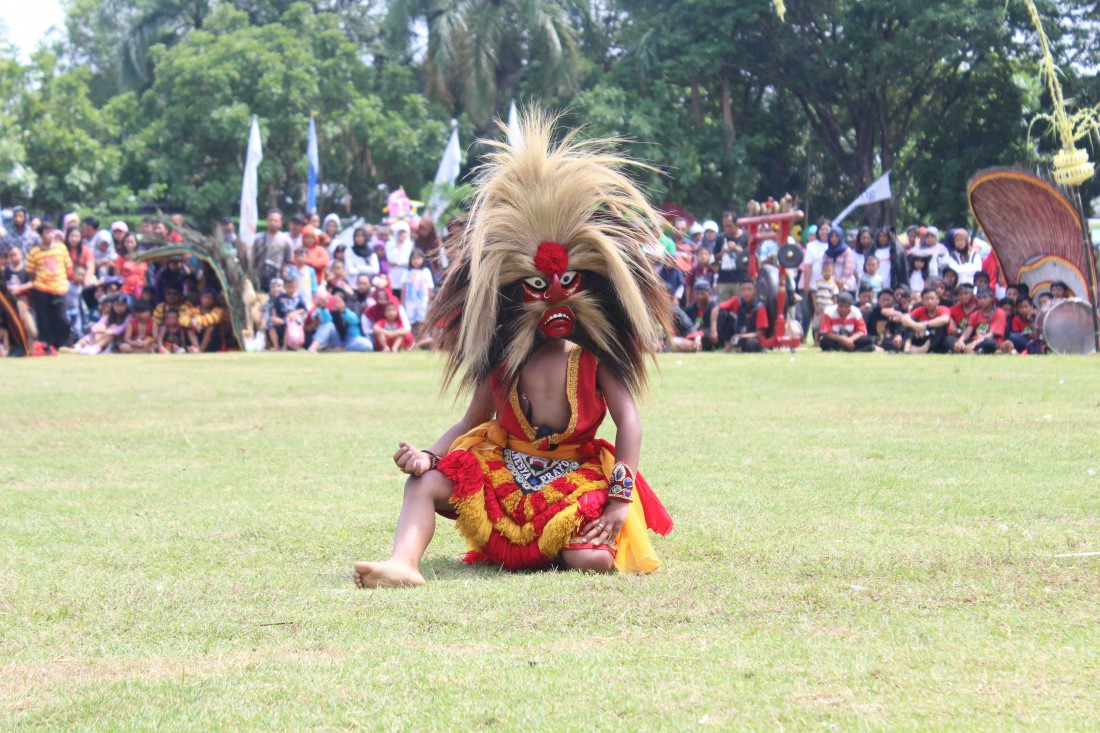 Bujang Ganong, one of the performer in Reog Ponorogo dance, East Java.